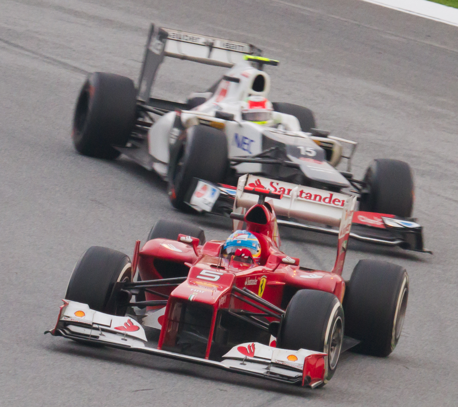 Formula One 2012 Rd.2 Malaysian GP: Fernando Alonso (Ferrari) and Sergio Pérez (Sauber) during the race.